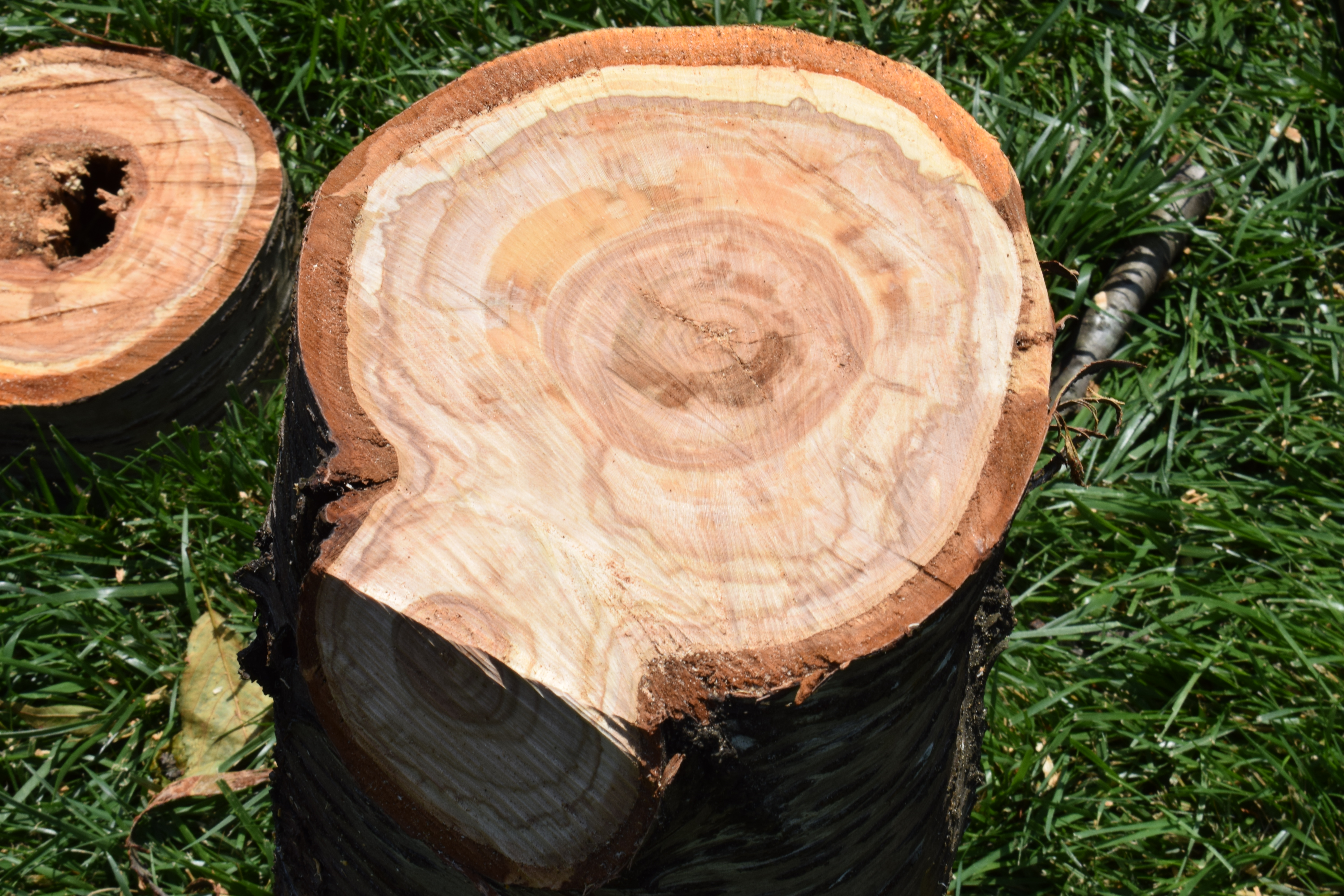 Prunus cerasus tree rings. This is a freshly cut large piece from the main trunk. You can see where a branch was cut off from the lower left portion. There is a leaf just to the left of it. In the upper left of the photo you see a slice of the main trunk showing a disease eating away the core. This disease seems to have come up from the tap root. Circumference is about 32 inches (81 cm) and diameter is about 13 inches (33 cm).